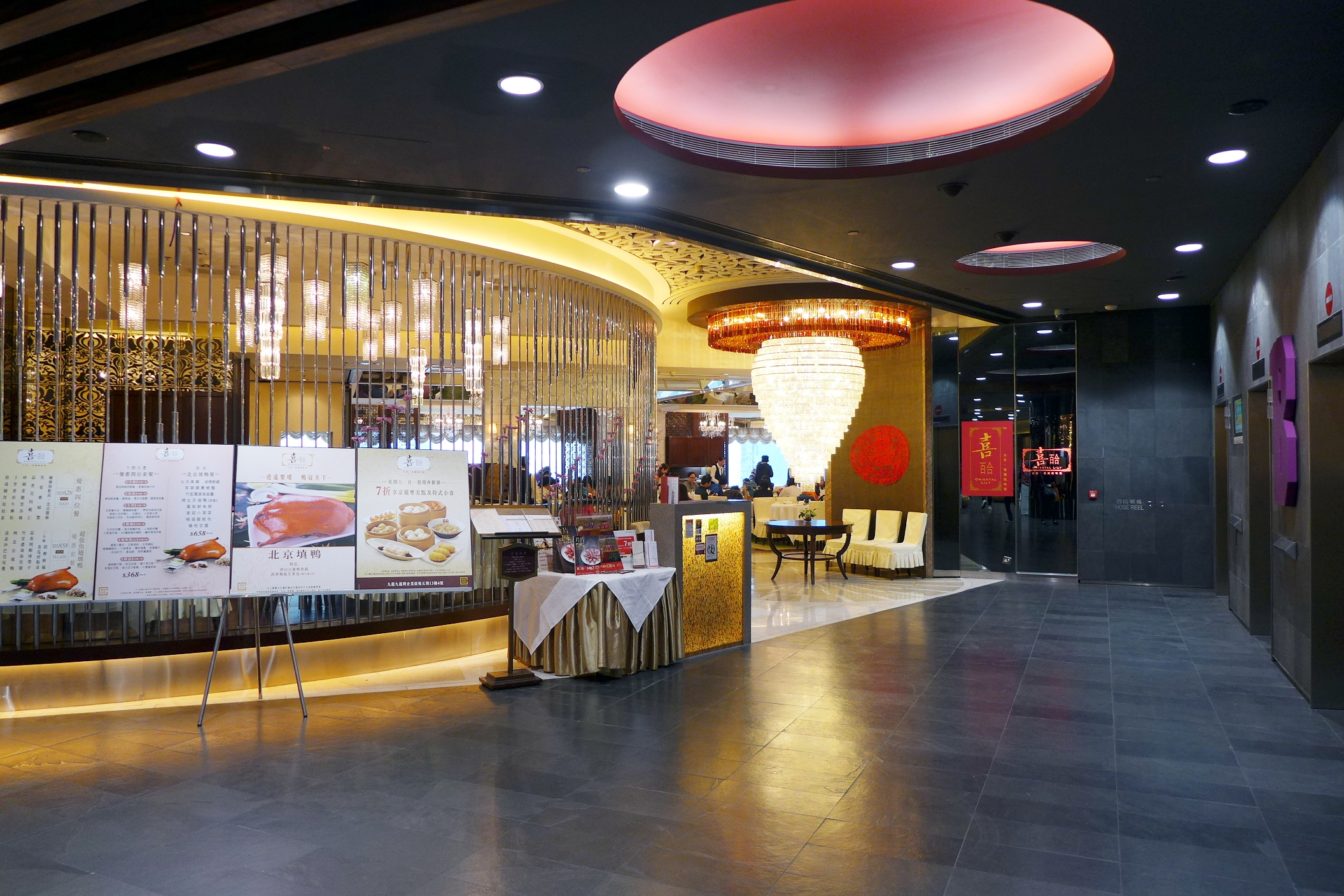 Oriental Lily in MegaBox